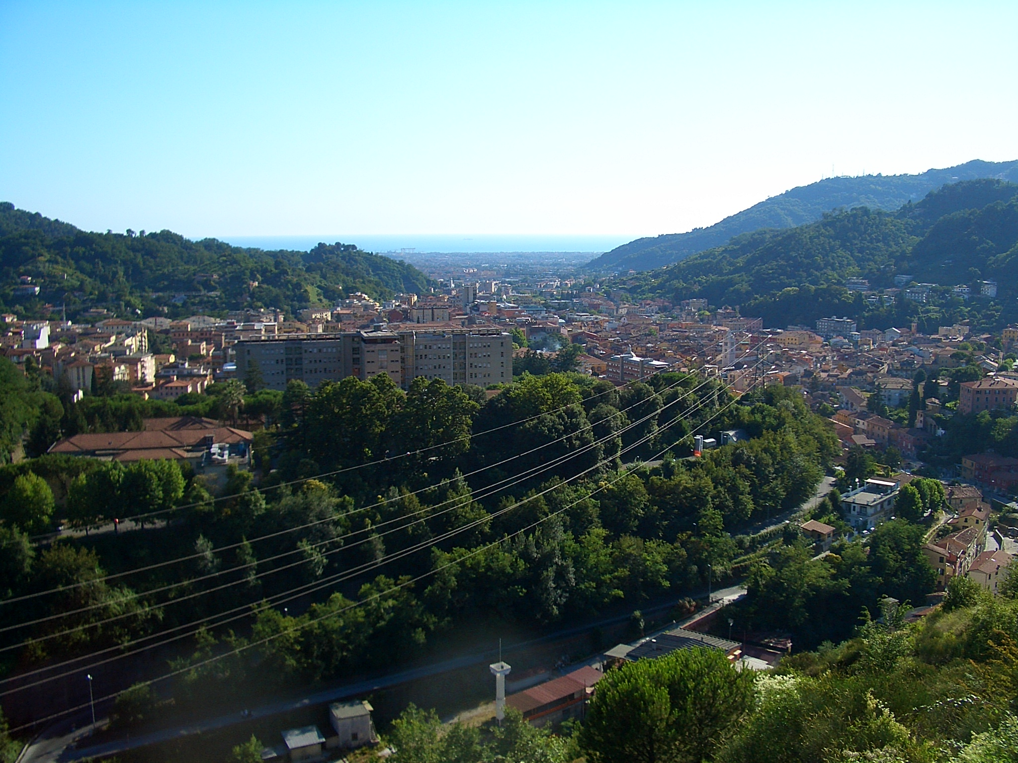 Marble quarries above Carrara, and the road that runs there on the slope of a steep valley, partly in tunnels